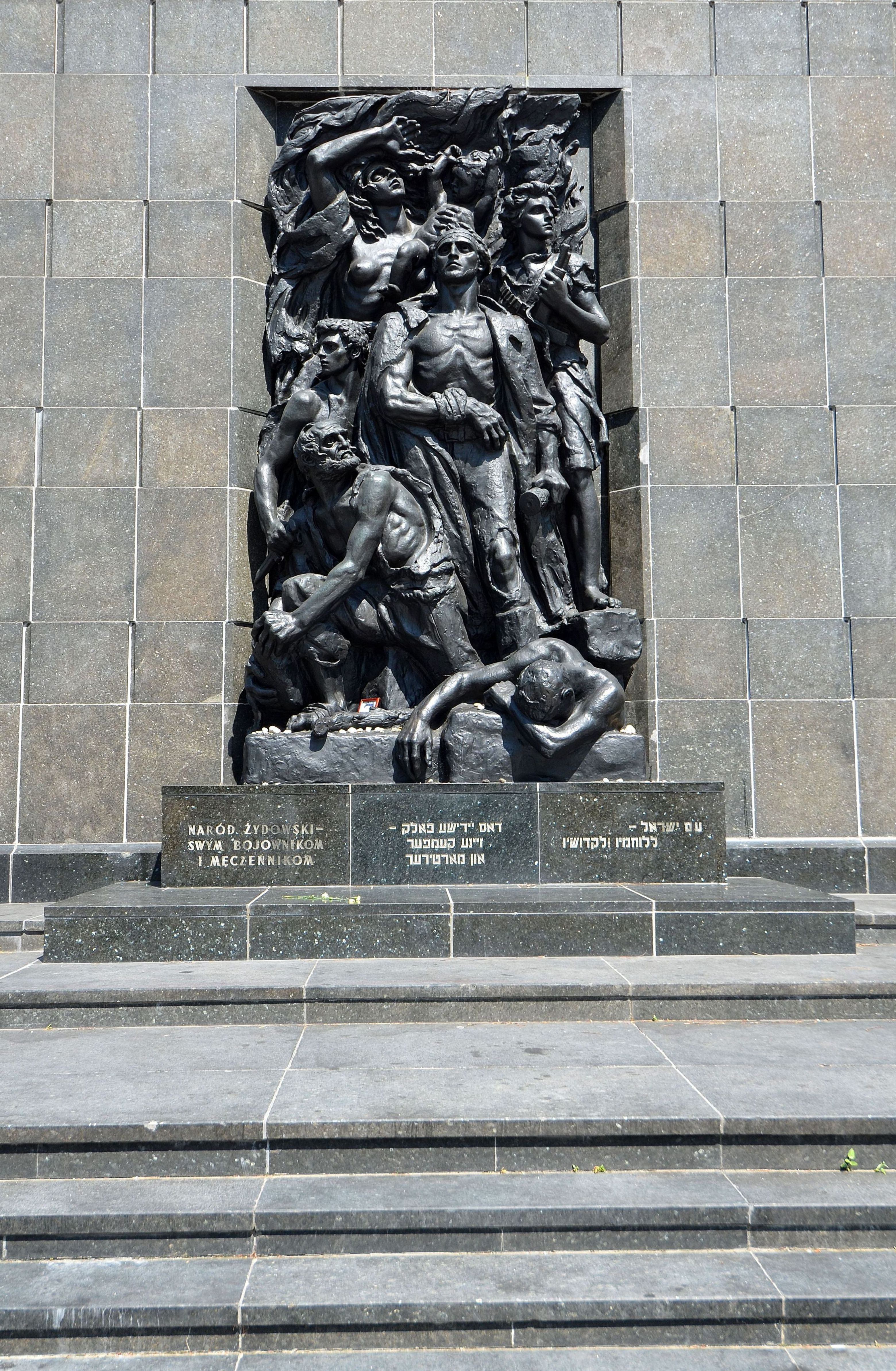 Warsaw Ghetto Heroes Monument